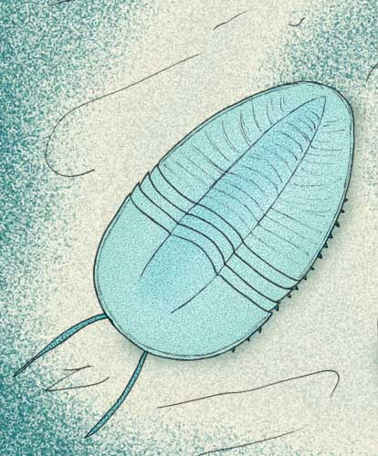 Reconstruction of the naraoiid arthropod, Kangacaris zhangi, of the Lower Cambrian Emu Bay